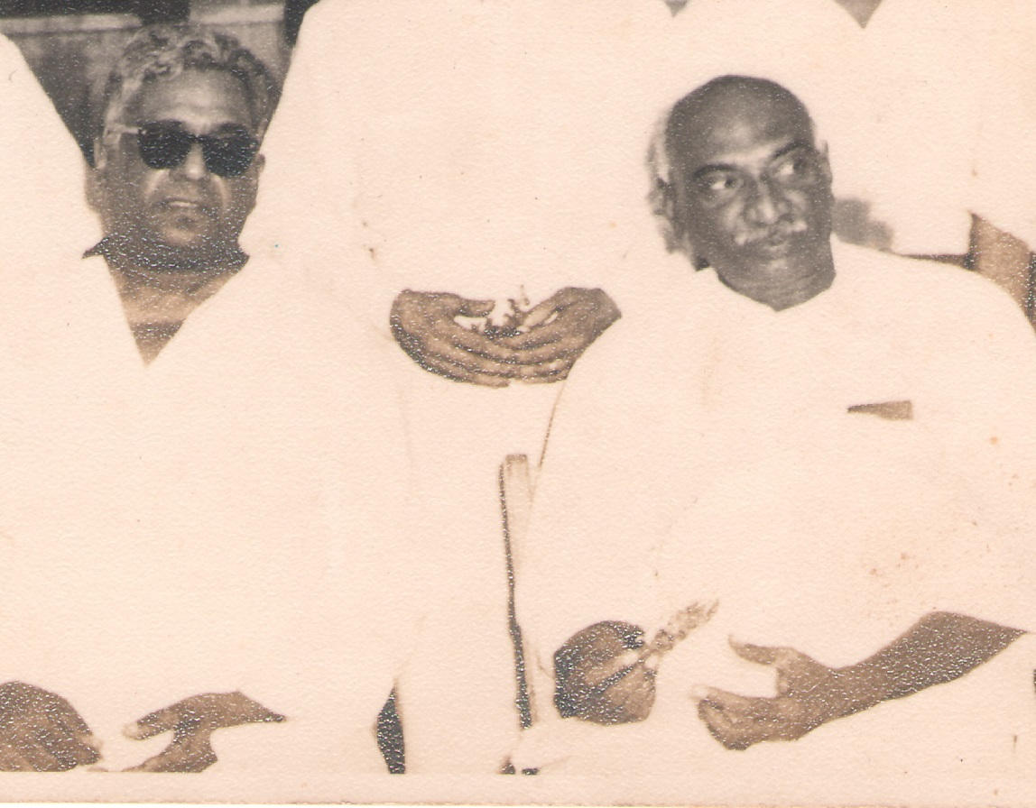 Shri S. Venkataraman, Rajya Sabha MP, Indian National Congress (left) with Shri K. Kamraj, 3rd Chief Minister of Madras State (right)